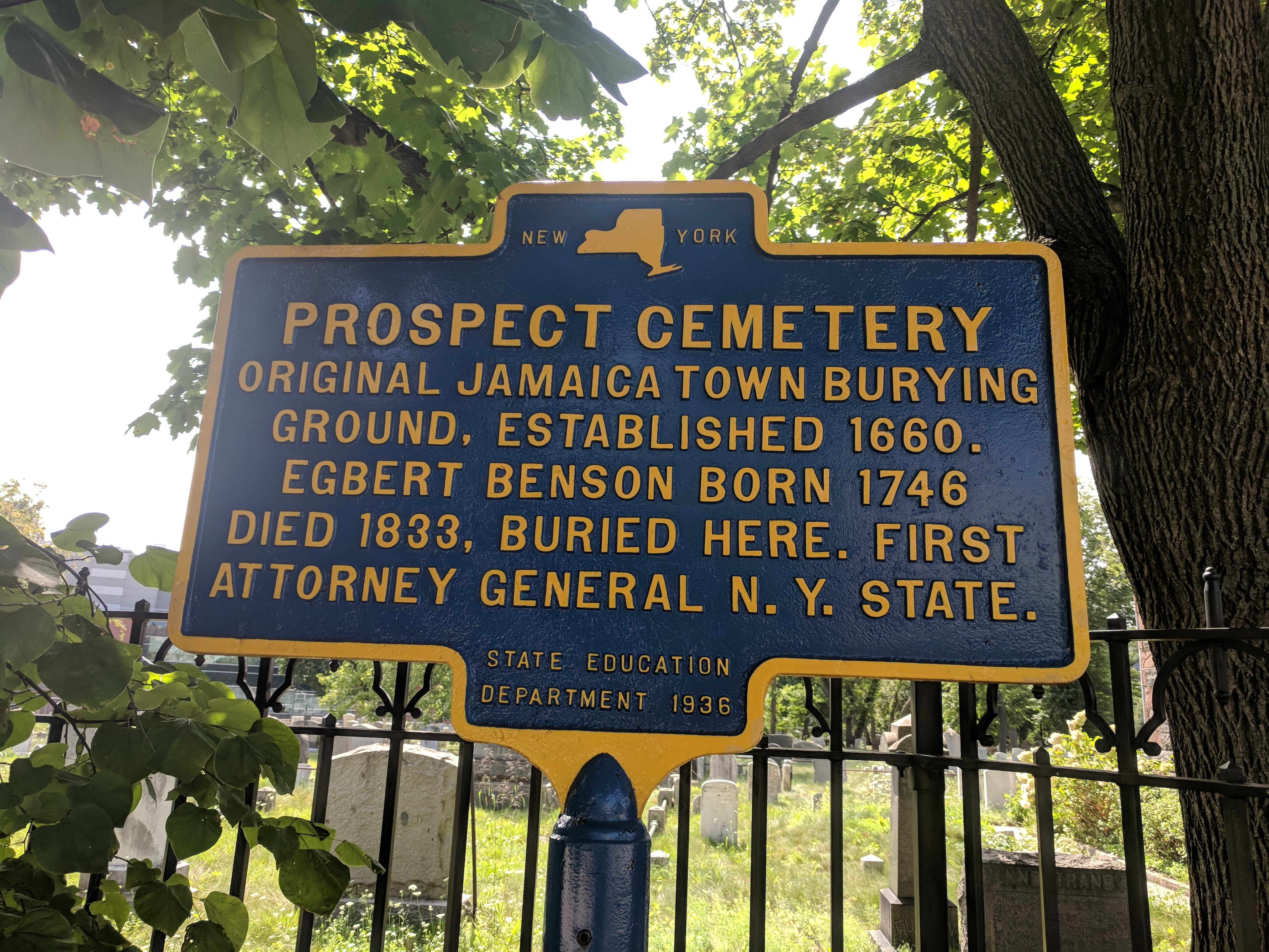 Descriptive plaque for Prospect Cemetery, over 50 veterans of the war for independence are buried here, on the campus of York College.